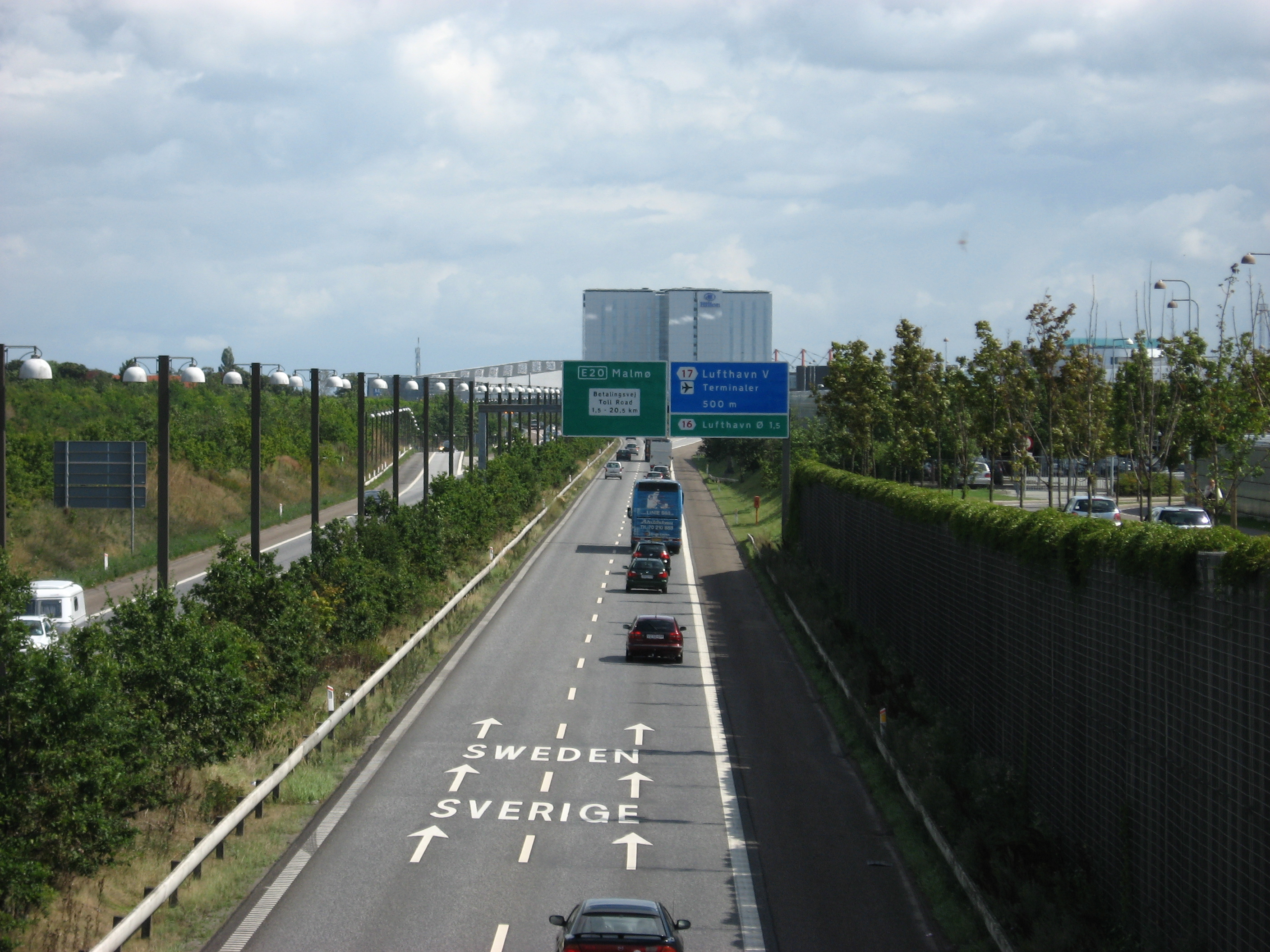 E20 motorway near Copenhagen Airport.